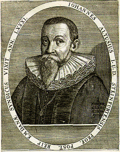 Johannes Althusius (1557–1638), German jurist